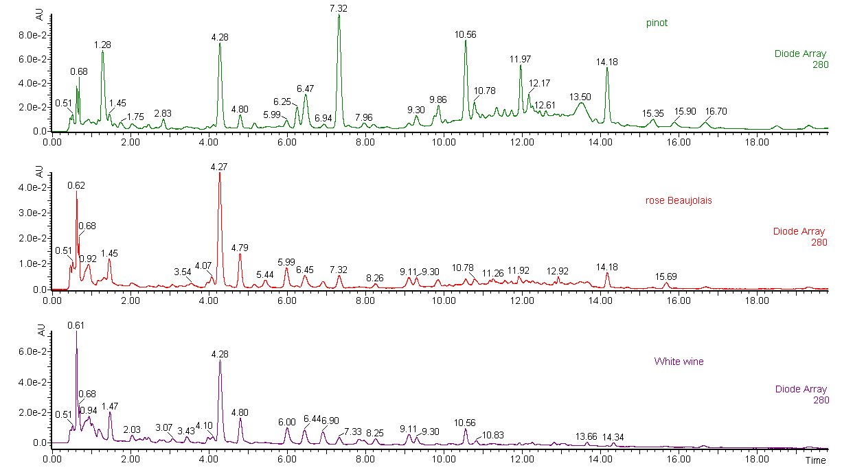 comparison of LC chromatograms taken at 280 nm between a pinot red wine (top), a Beaujolais rosé (middle) and a white wine (bottom).